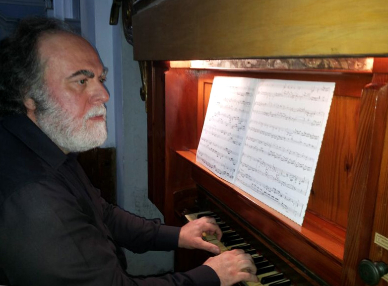 Domenico Morgante all'Organo storico "E. Kircher" (1710) della Chiesa di San Francesco d'Assisi a Monopoli (2013)